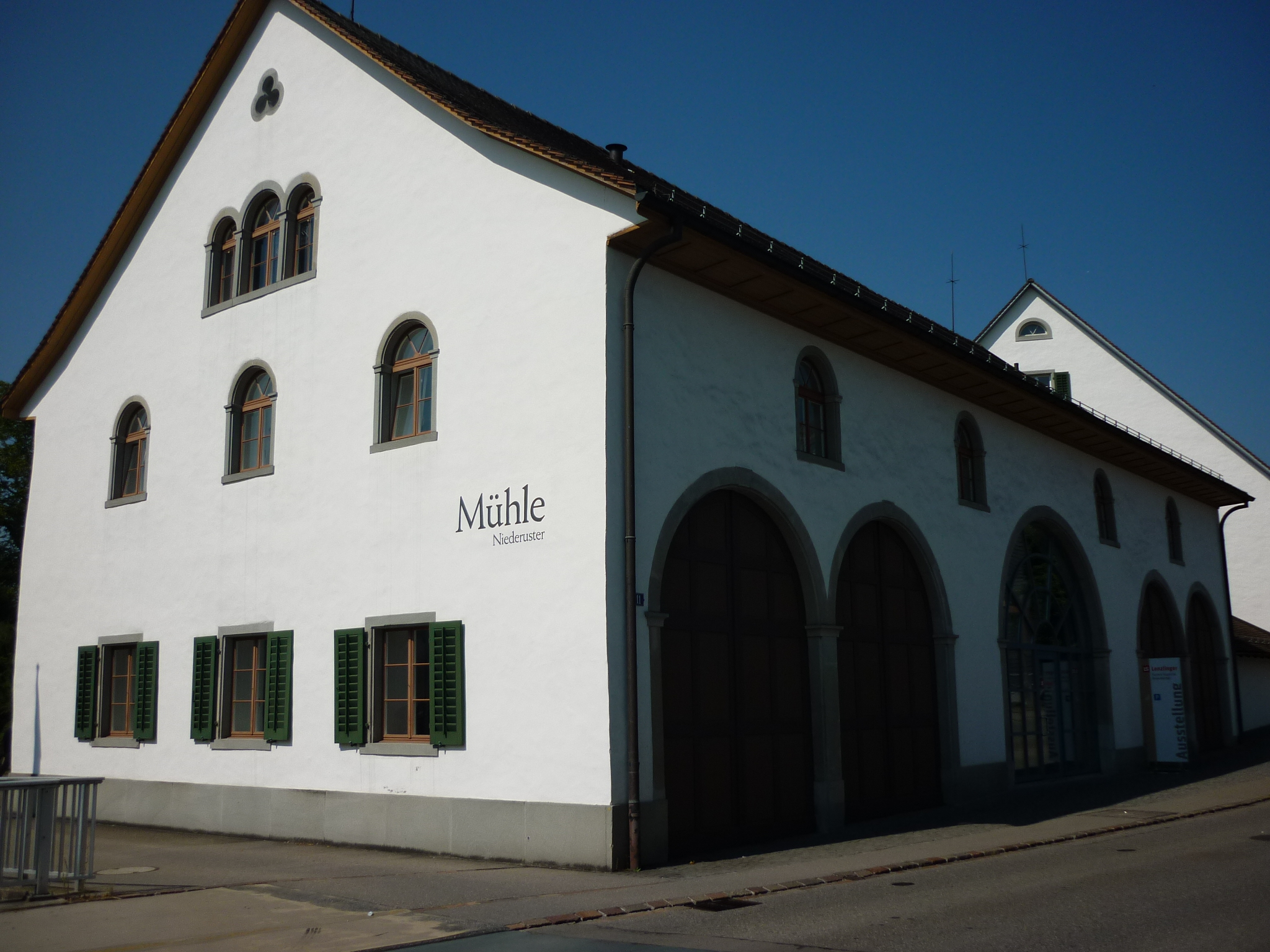 Niederuster ZH, Switzerland